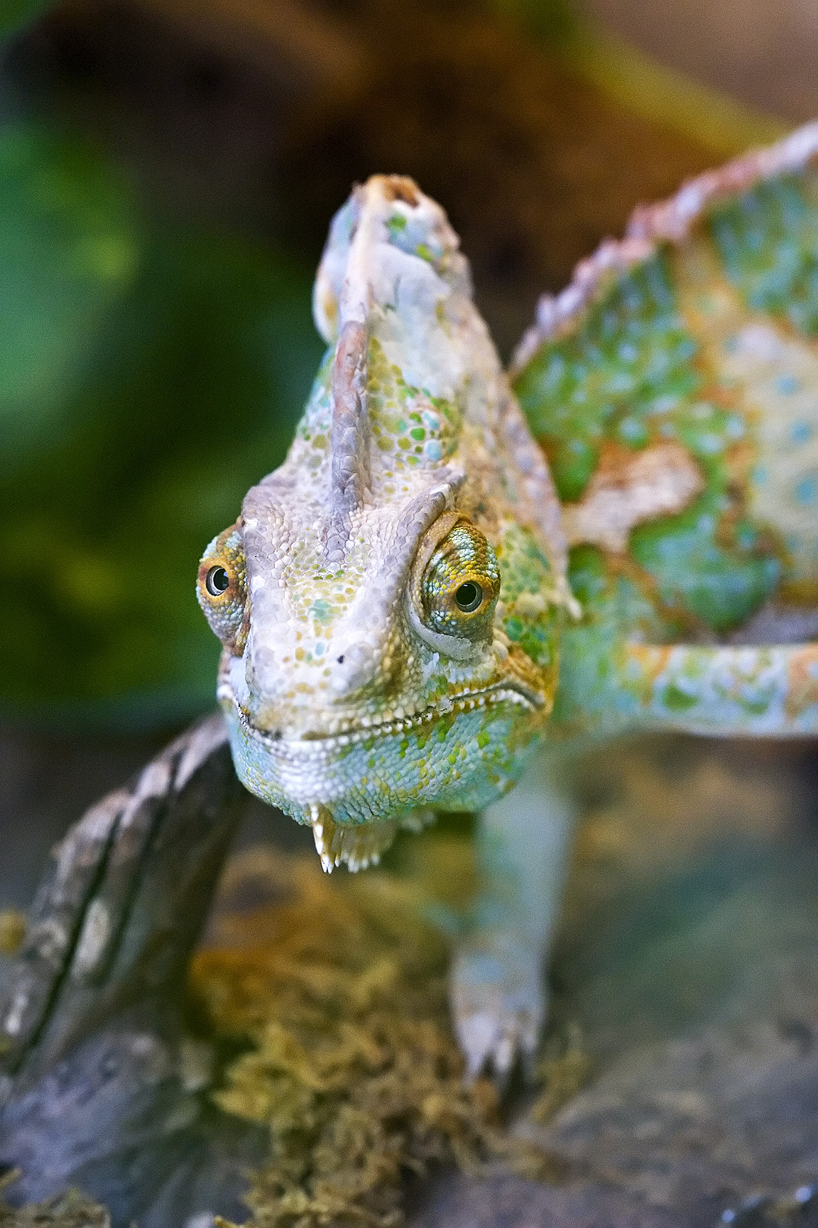 View On Black . Montegrotto Terme, Veneto, Italy.